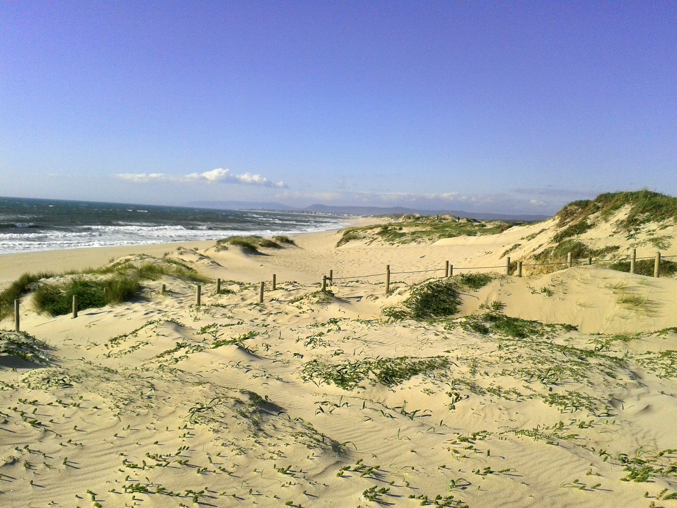 Newly built